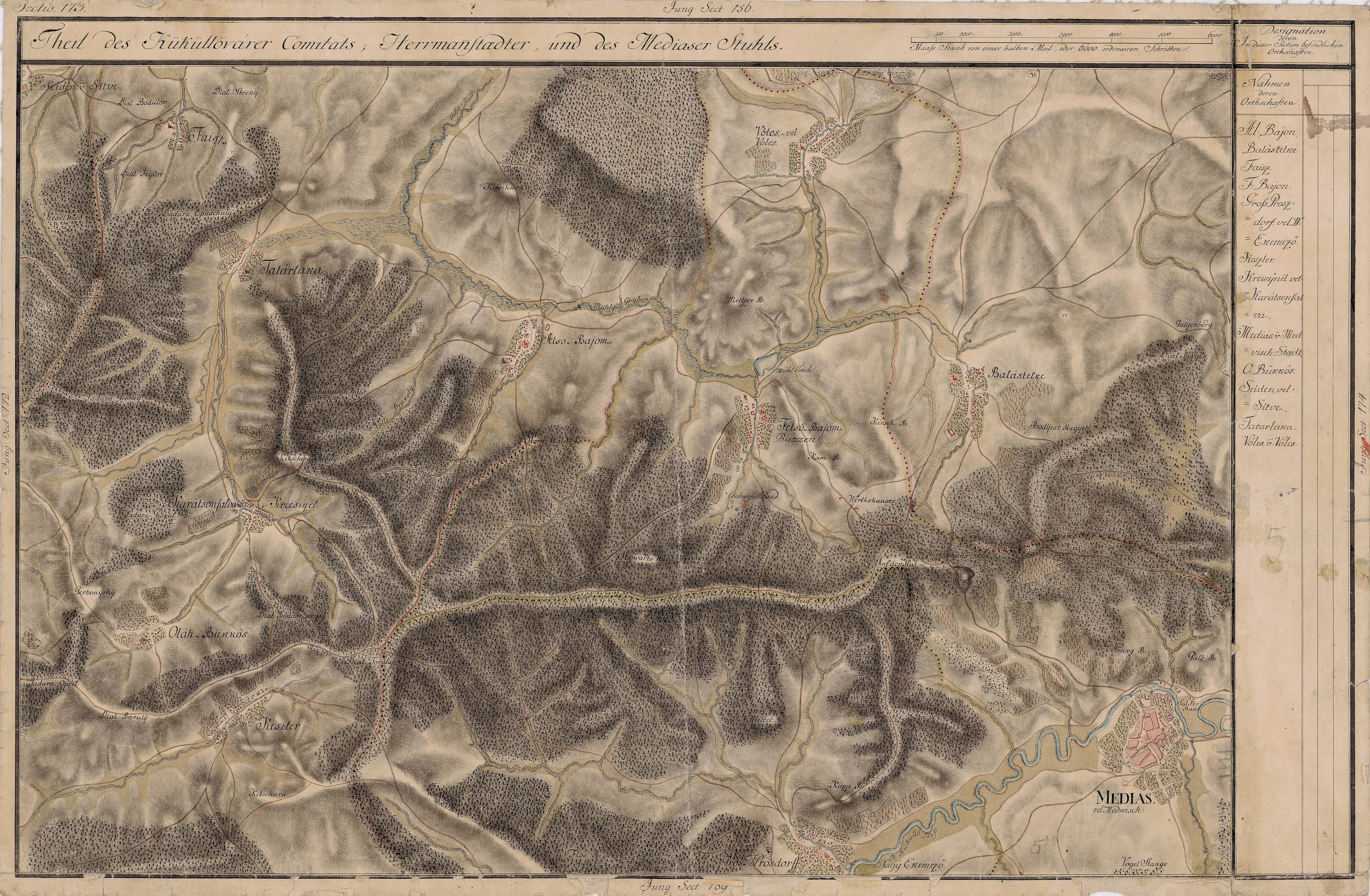 Grand Duchy of Transylvania, 1769-1773. Josephinische Landaufnahme pg.173